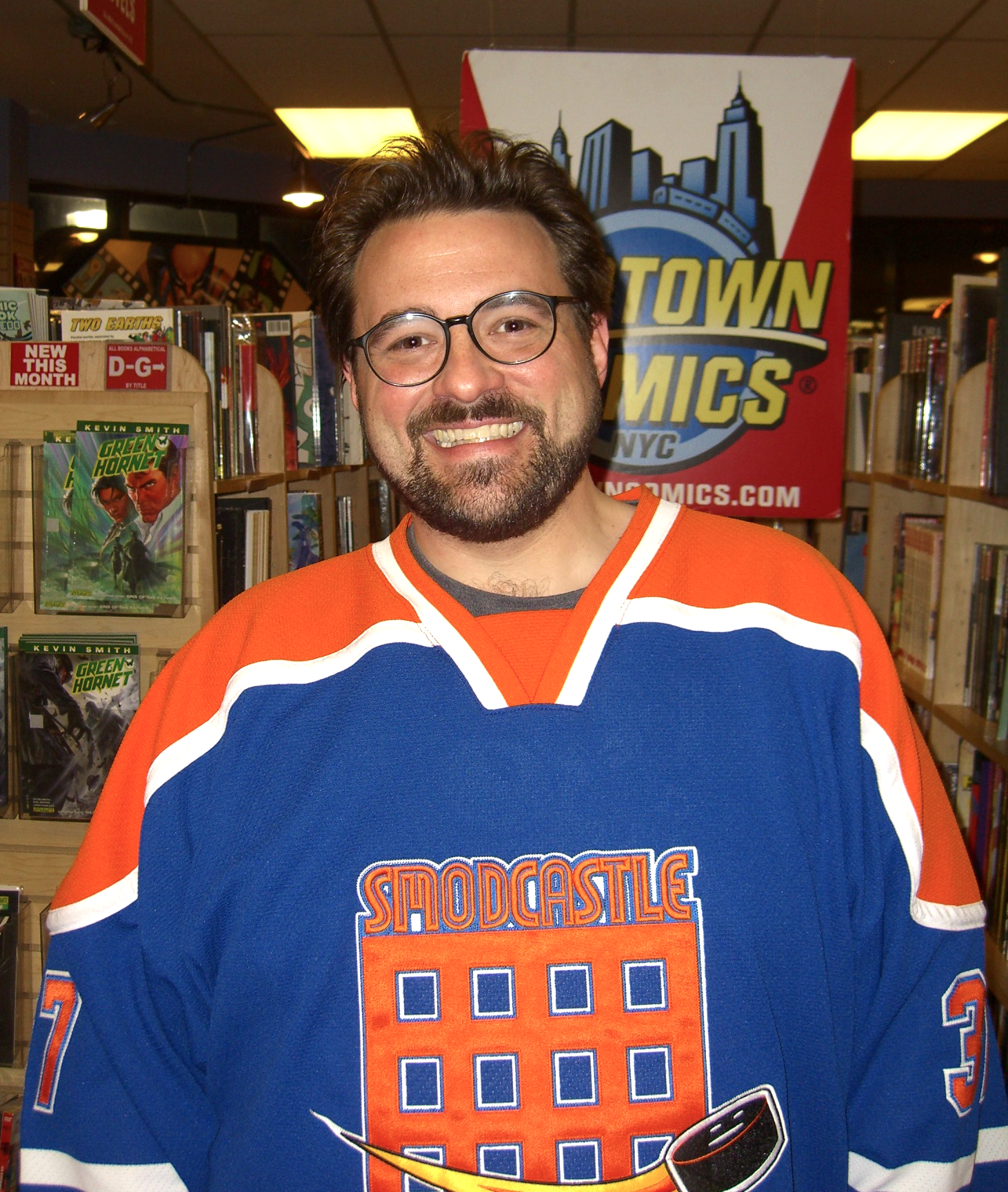 Filmmaker and comic book writer Kevin Smith promoting his 2011 film Red State, at Midtown Comics Grand Central in Manhattan, where he signed autographs and posed with fans for photos, March 4, 2011. Photographed by Luigi Novi. This photo is not in the public domain. It may, however, be used, modified and published for any purpose, only if an easily visible credit to the photographer is placed near the photo in each instance in which it is used. (See licensing information below.) Publication of this photo without this proper attribution constitutes copyright infringement. For more information on my photos, you can contact me here.